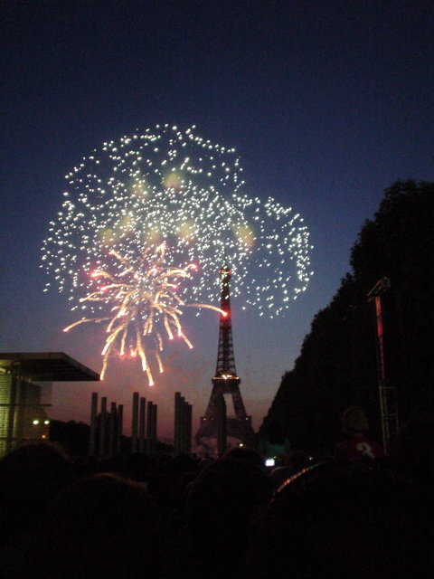 Fireworks at the Eiffel Tower, in Paris, France.